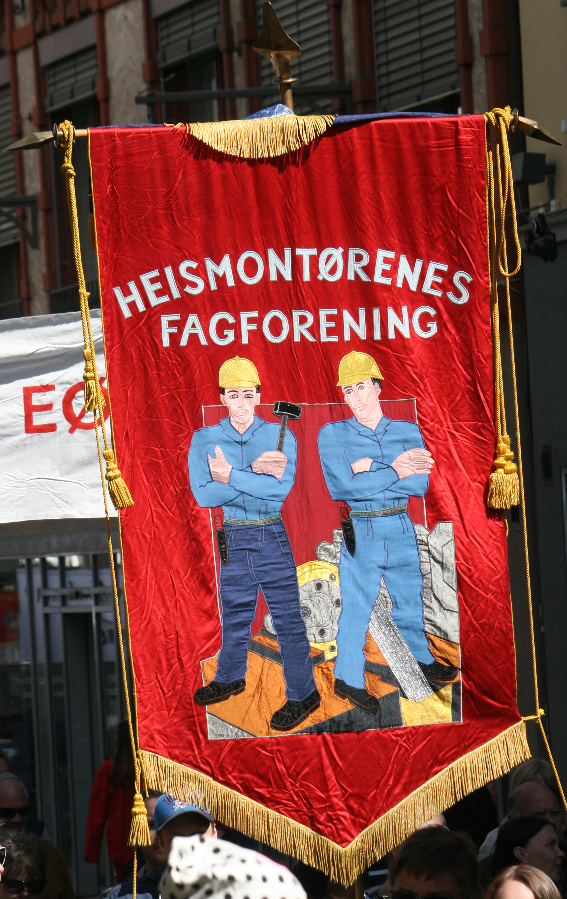 Banner of The Norwegian Elevator Constructors' Union